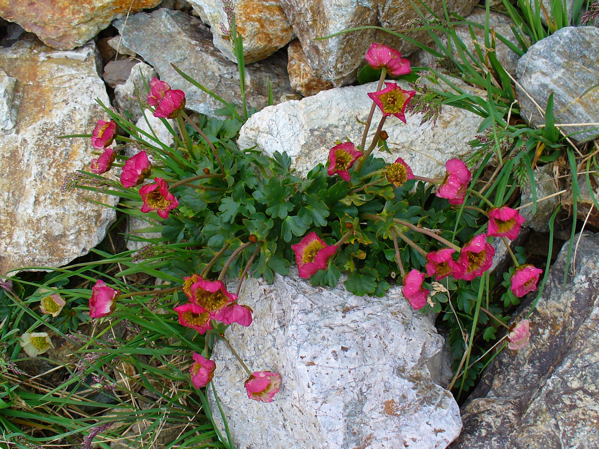 Ranunculus glacialis, Ranunculaceae, Glacier Crowfoot, Glacier Buttercup, habitus, plant with red flowers (= bloomed out); Diavolezza, Engadin, Switzerland, altidude ca. 3.000 m. The plant is used in homeopathy as remedy: Ranunculus glacialis (Ran-g.)